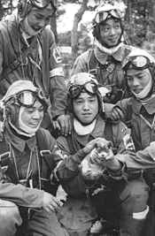 Photo shows Corporal Yukio Araki holding a puppy with four other young men of the 72nd Shinbu Corps around him. An Asahi Shimbun cameraman took this photo on the day before the departure of the 72nd Shinbu Corps from Bansei Air Base. Yukio Araki died at the age of 17 in a suicide attack on American ships near Okinawa on May 27, 1945. Almost all Army kamikaze pilots during the Okinawan campaign were between 17 and 22 (Muranaga 1989, 12). The guides at the Chiran Peace Museum emphasize that the youngest kamikaze pilot was only 17 years old.